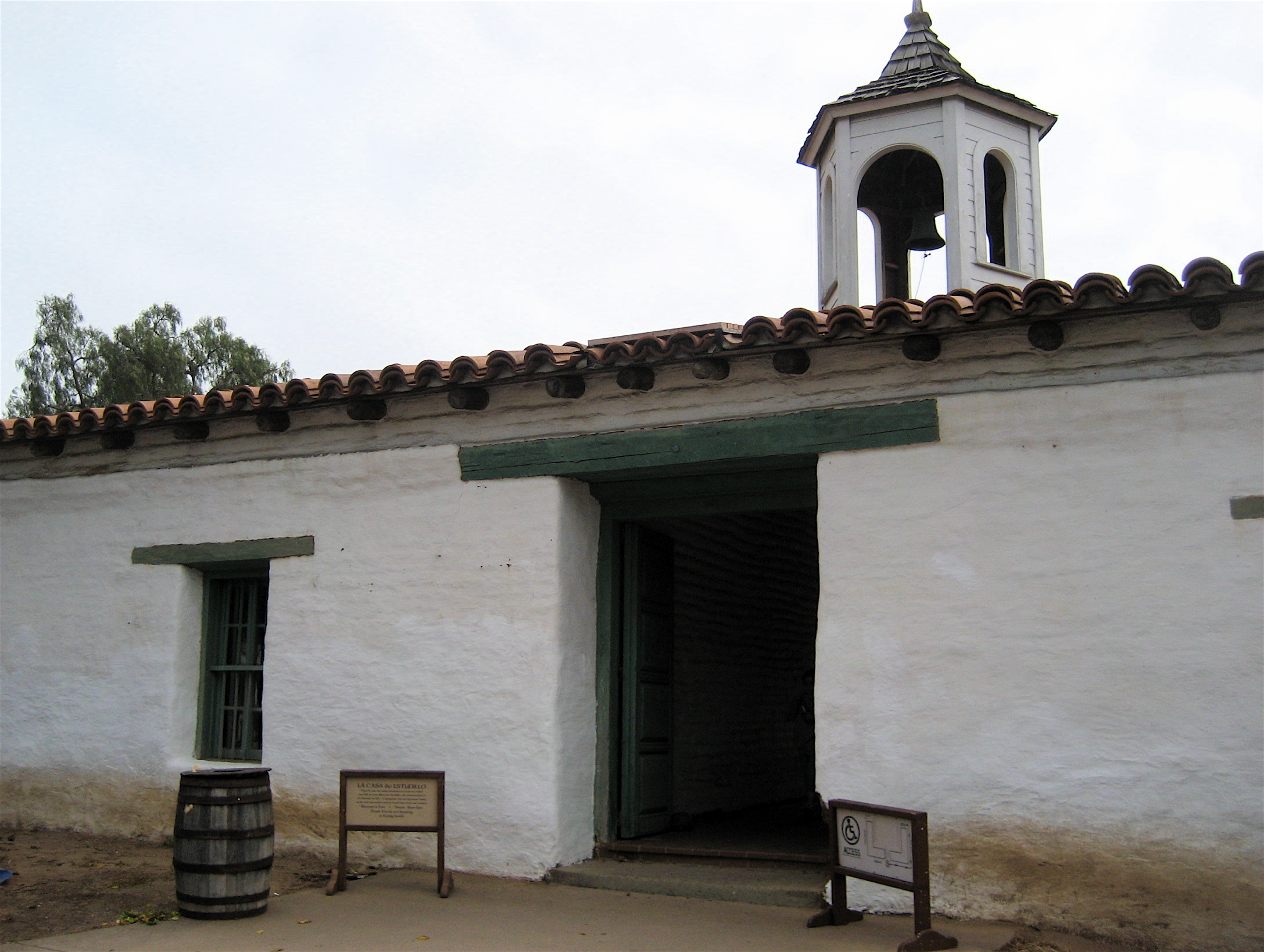 Main entrance to the Casa de Estudillo, San Diego, California. This 170 year old hacienda was built by Jose Maria de Estudillo, the commandant of the Presidio in 1827. It is furnished to represent how a wealthy Mexican family would have lived at that time.